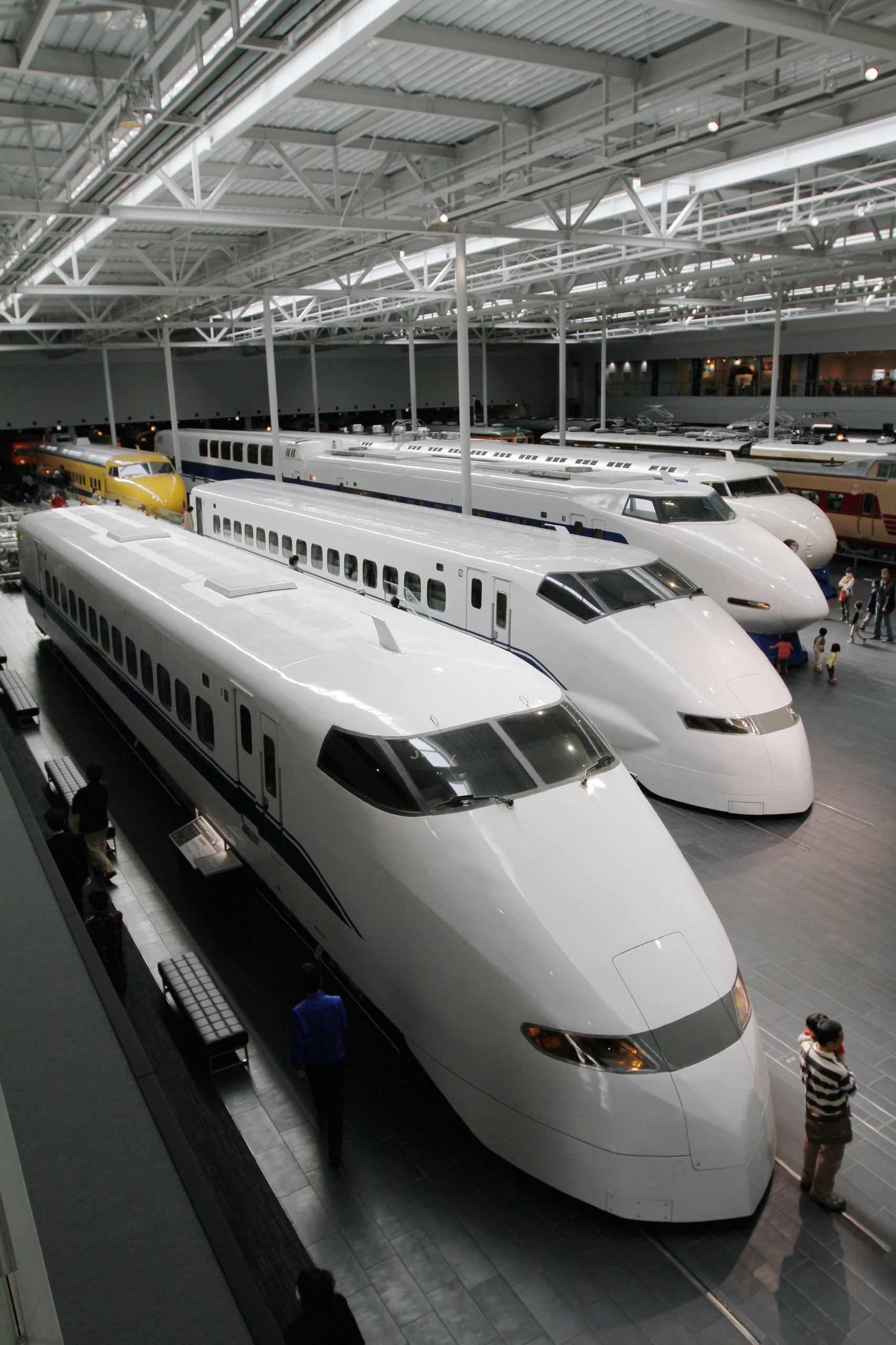 Shinkansen Train Zone at the SCMaglev and Railway Park museum in Nagoya, Japan (From front to rear: 300 series 323-20, 300 series 322-9001, 100 series 123-1, and 0 series 21-86